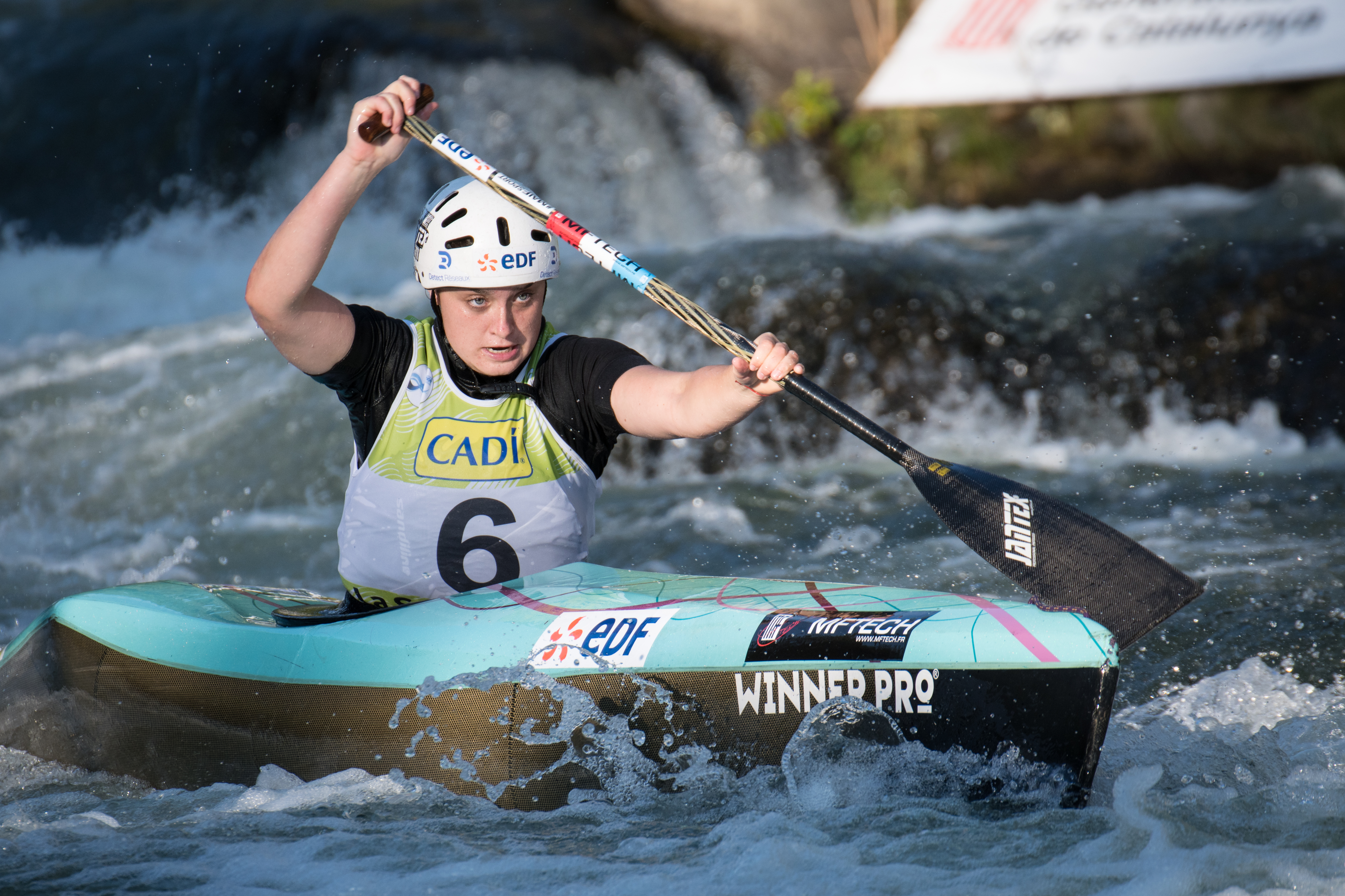 Hélène Raguénès during the 2019 Canoe Wildwater World Championships in La Seu d'Urgell, Spain.